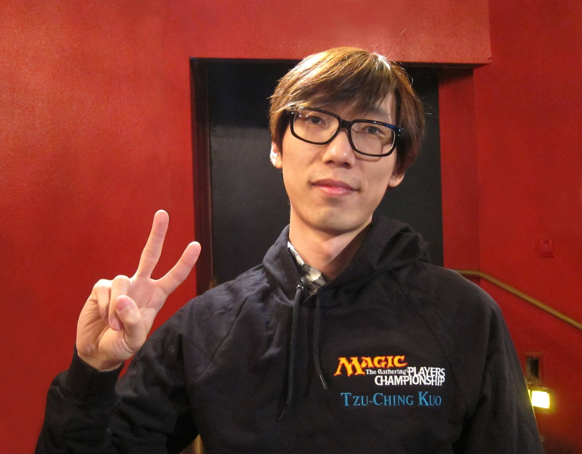 Professional Magic: The Gathering Player, Kuo Tzu Ching, at the 2012 Players Championships